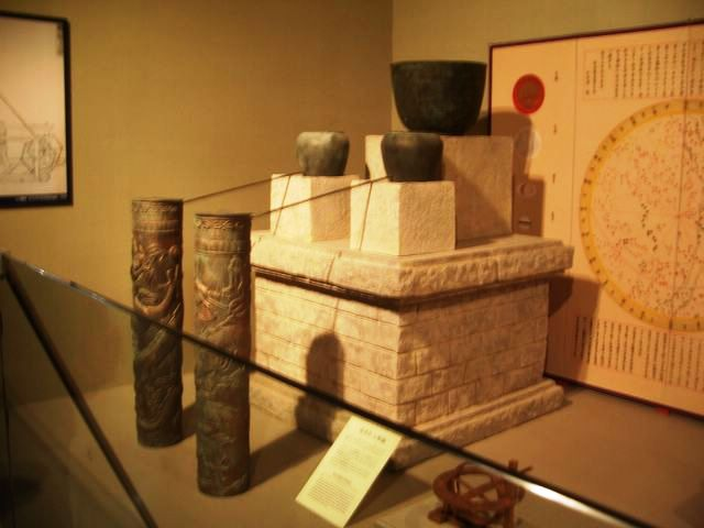 Model of a Korean automatic water clock first made by Jang Yeongsil. Author: Ben Norris URL: Permission: At September 07, 2006 10:27 AM, Wikimachine said... may I use this for Wikipedia? At September 07, 2006 12:00 PM, Ben Norris said... Sure! No problem! Yay. I'm a part of Wikipedia. :-) -Ben At September 08, 2006 8:40 AM, Wikimachine said... Hey Ben! Do you have any more pictures from your trip? Rain gauge, for example. The current pic is under copyright violation. Sundial, portrait or statue of Jang Yeongsil, astronomical devices, etc. would be great. Thanks. At September 09, 2006 12:18 AM, Ben Norris said... Here's a few: That's all I have, unfortunately. Sorry I couldn't be more of a help! Feel free to use them if you'd like. At September 10, 2006 9:50 AM, Wikimachine said... Thank you sooooooooooo much! L L L L L L L L L L L L L L At September 12, 2006 9:49 AM, Wikimachine said... Sorry for trouble, but 1 more copyright issue. Anything that is used on Wikipedia must be free for everyone. So, you can't just let me use it for Wikipedia only. You have to guarantee that you have no copyright for these pictures or intend to keep them private. Can you agree with that? Thank you so much for your cooperation. By the way, the L L L thing.. I tried to make a symbol, but it didn't show up. -Wikimachine At September 12, 2006 6:41 PM, Ben Norris said... I don't really care too much about the copyright. Anyone can use them. However, since the pictures were taken in a museum, I'm not sure if there is a problem with that, in terms of copyright. If it's up to me, I have to copyright to those pics I offered.